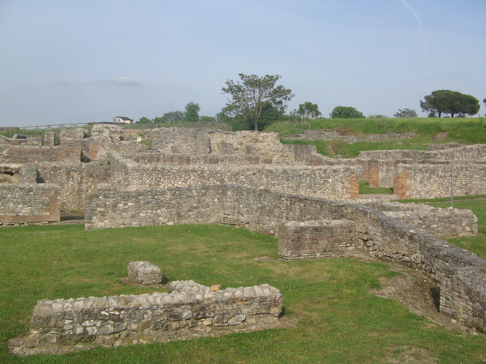 View of the ruins in the archaeological park of the Ancient Roman town of Aeclanum.